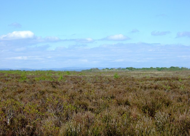 Across Glasson Moss Looking across Glasson Moss NNR - the middle ground is higher because it has not been worked for peat.